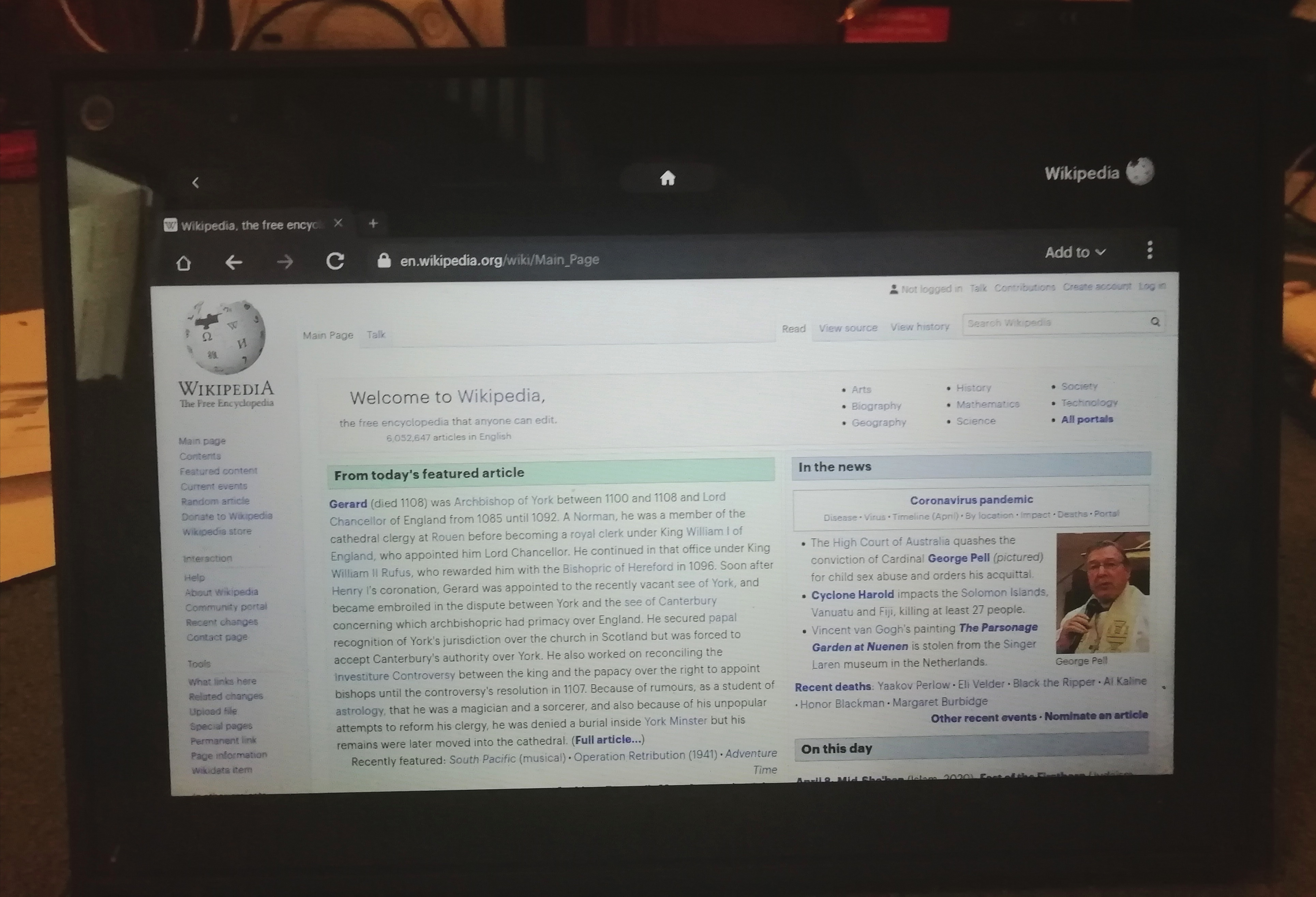 The main page of the English Wikipedia on April 8, 2020 took in the Facebook Portal Browser, a variant of Google Chrome